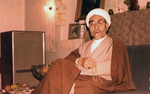 Ahmad Najafi Zanjani - 1970s